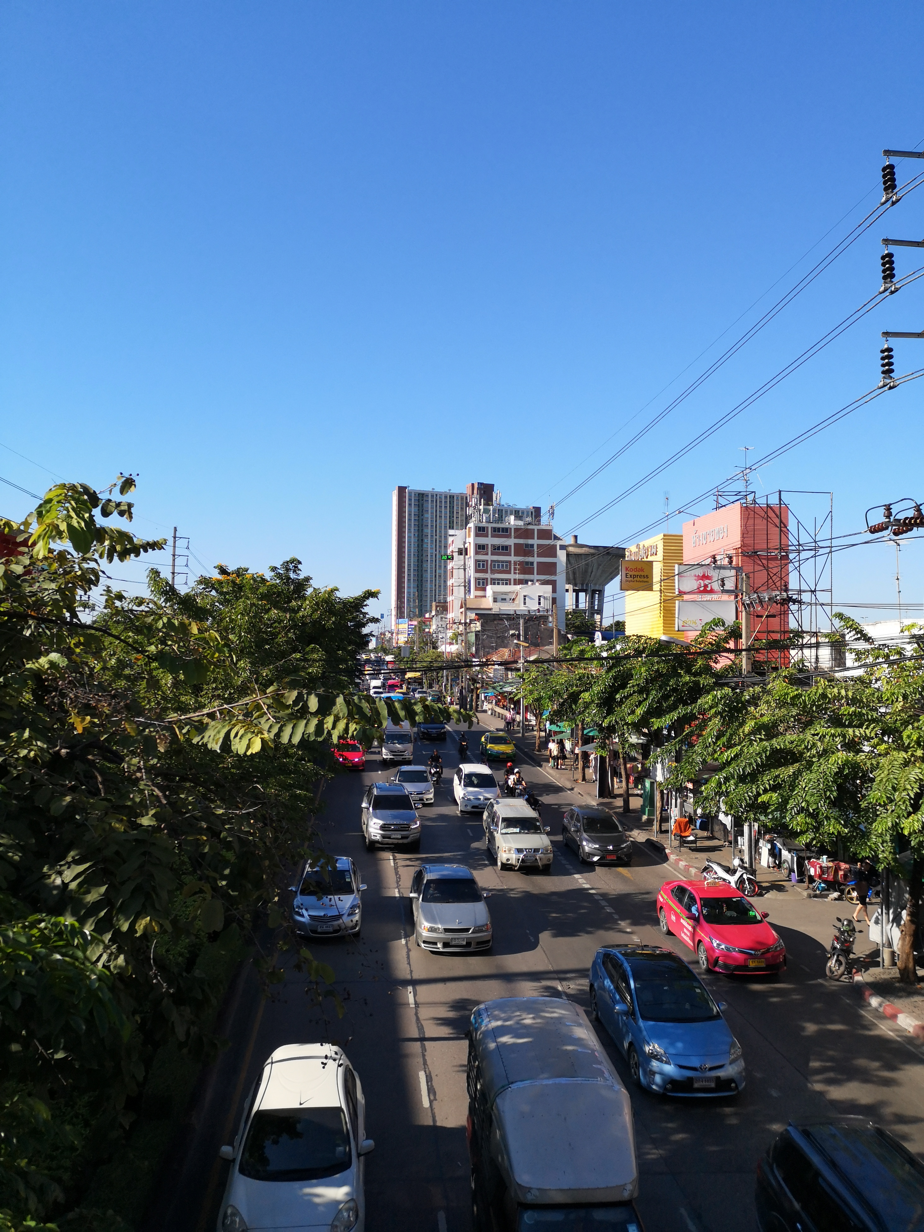 Thanon Somdet Phra Chao Tak Sin.